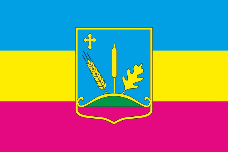 Flag of Trostyanetskyj district (Ukraine)